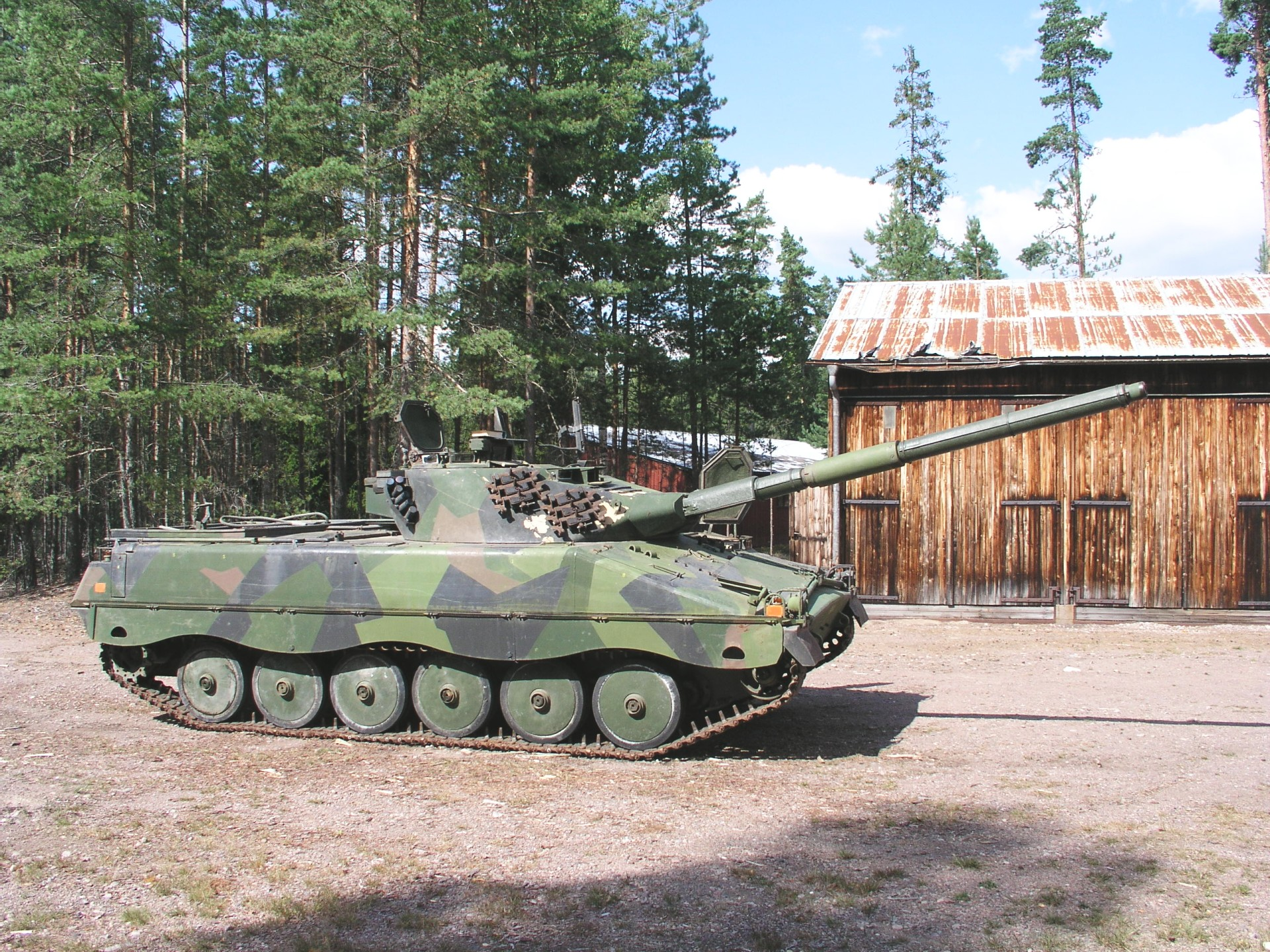 Infanterikanonvagn 91 (Ikv 91) Light Tank/Tank Destroyer.